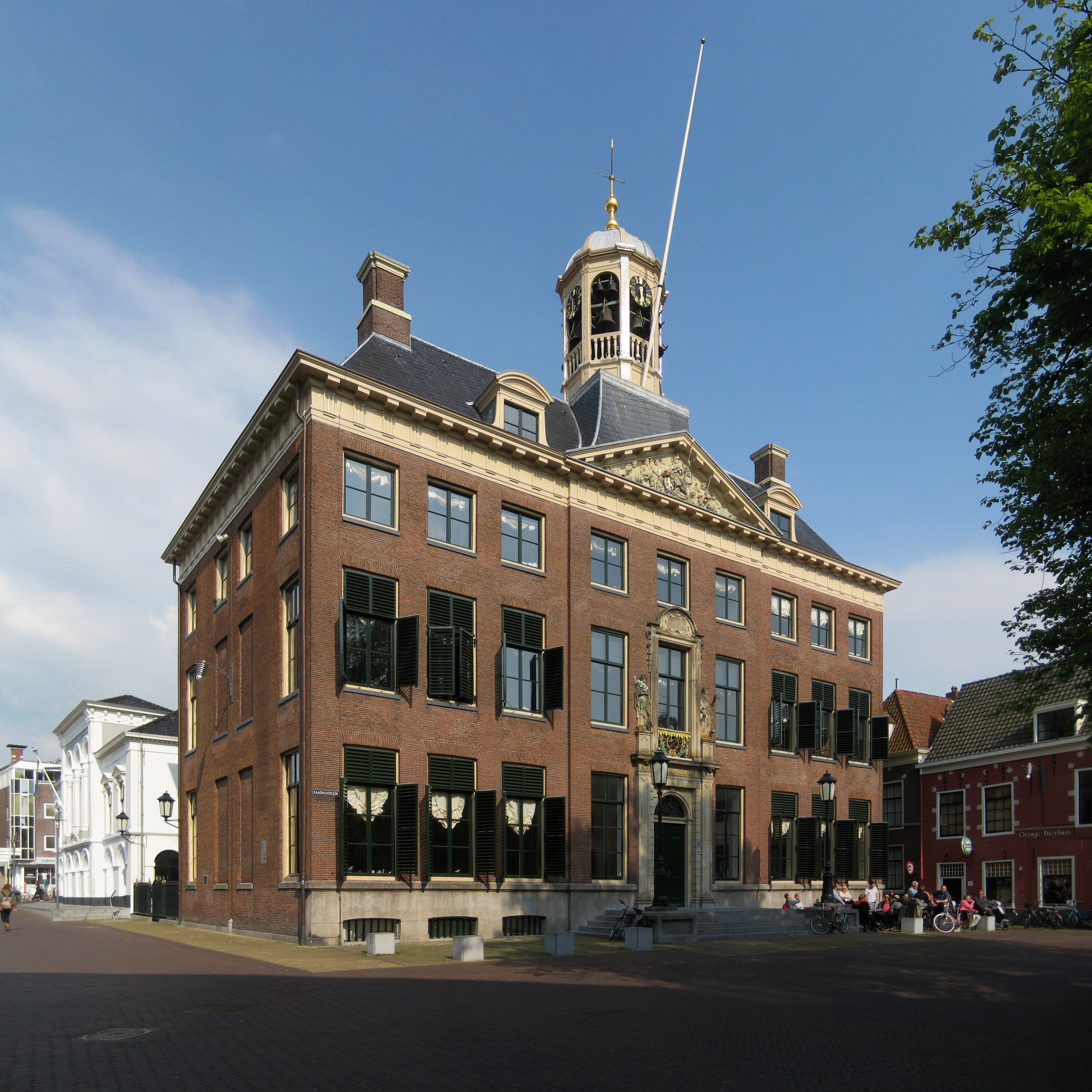 The town hall (1713) of Leeuwarden, the capital of the Dutch province of Fryslân.